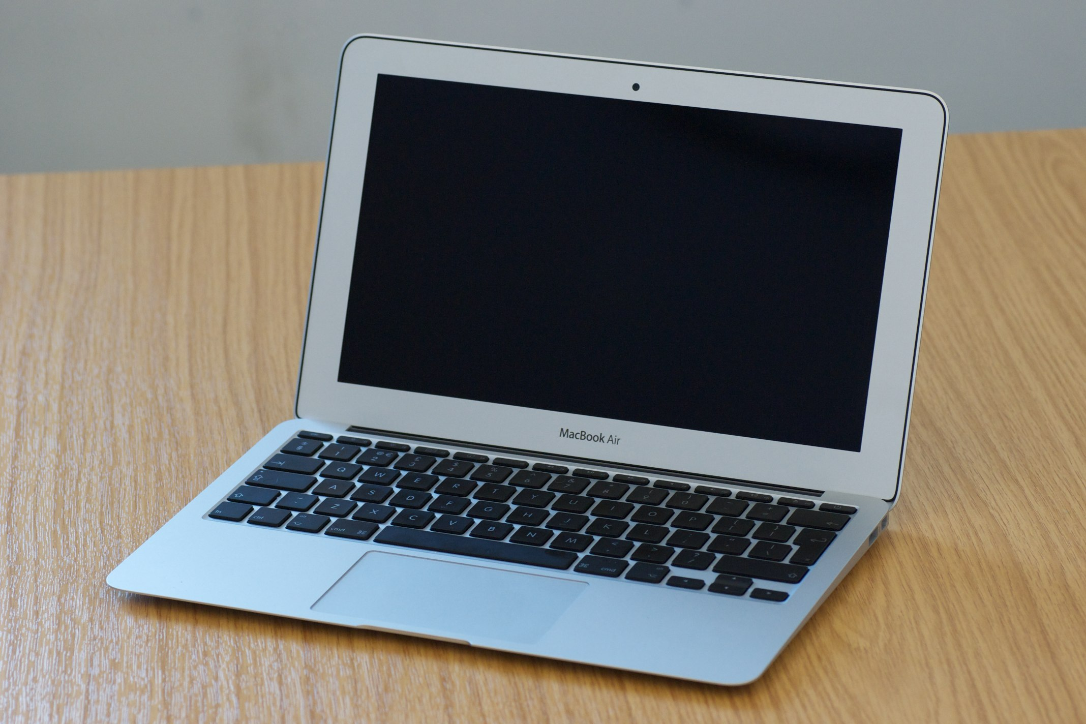 11.6" MacBook Air